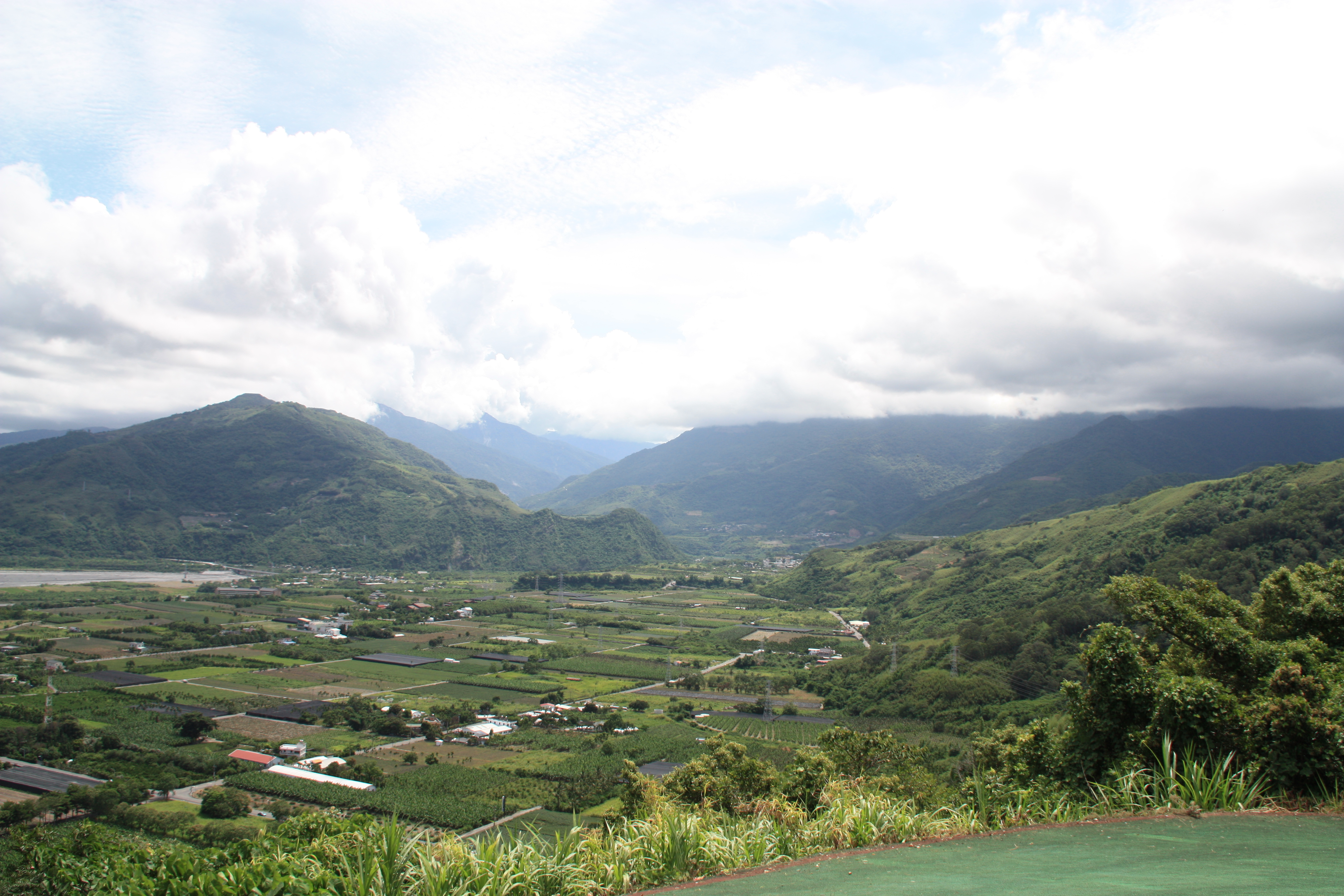 Taitung County Luye Township